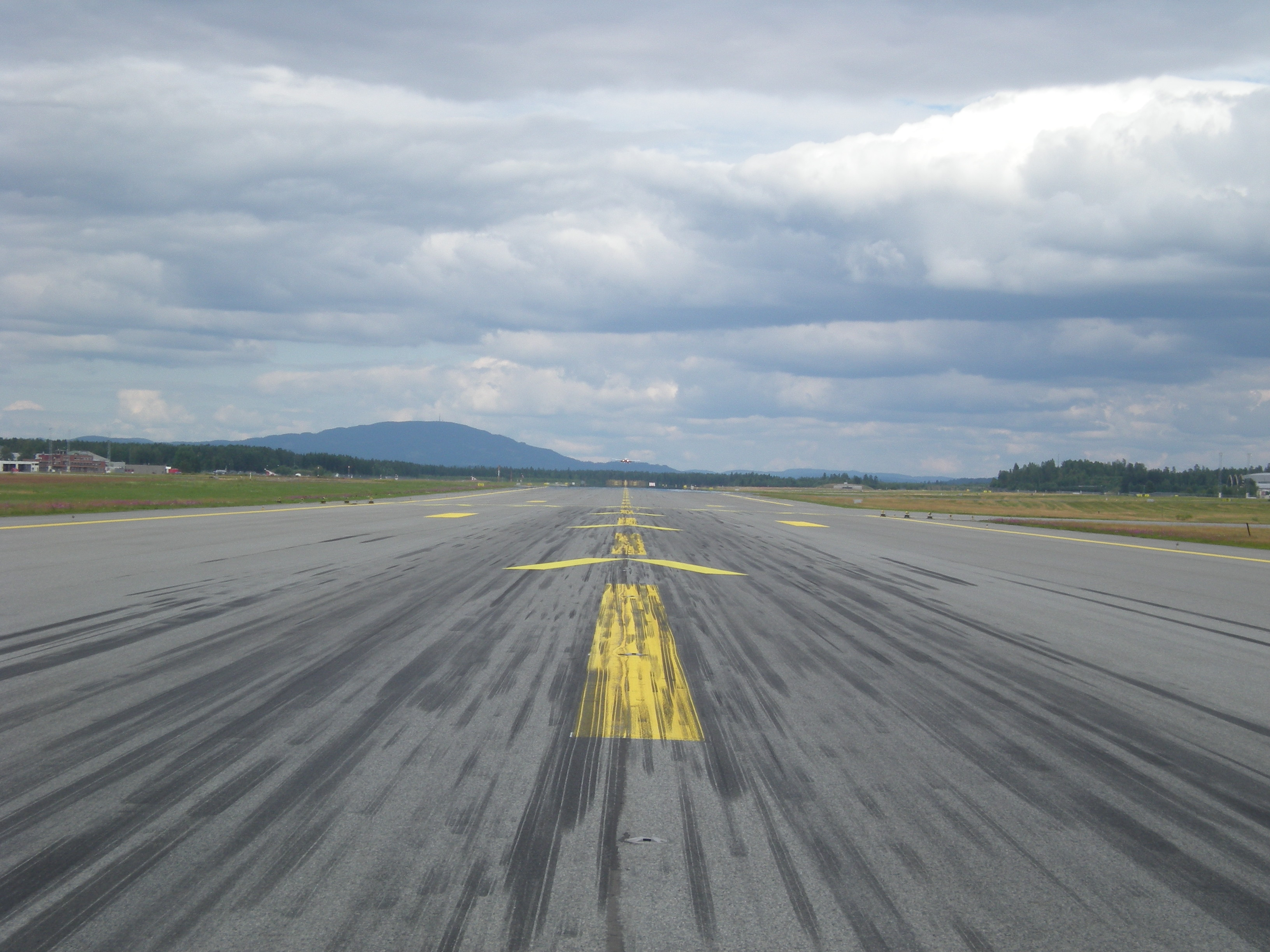 Runway at Oslo Airport, Gardermoen.